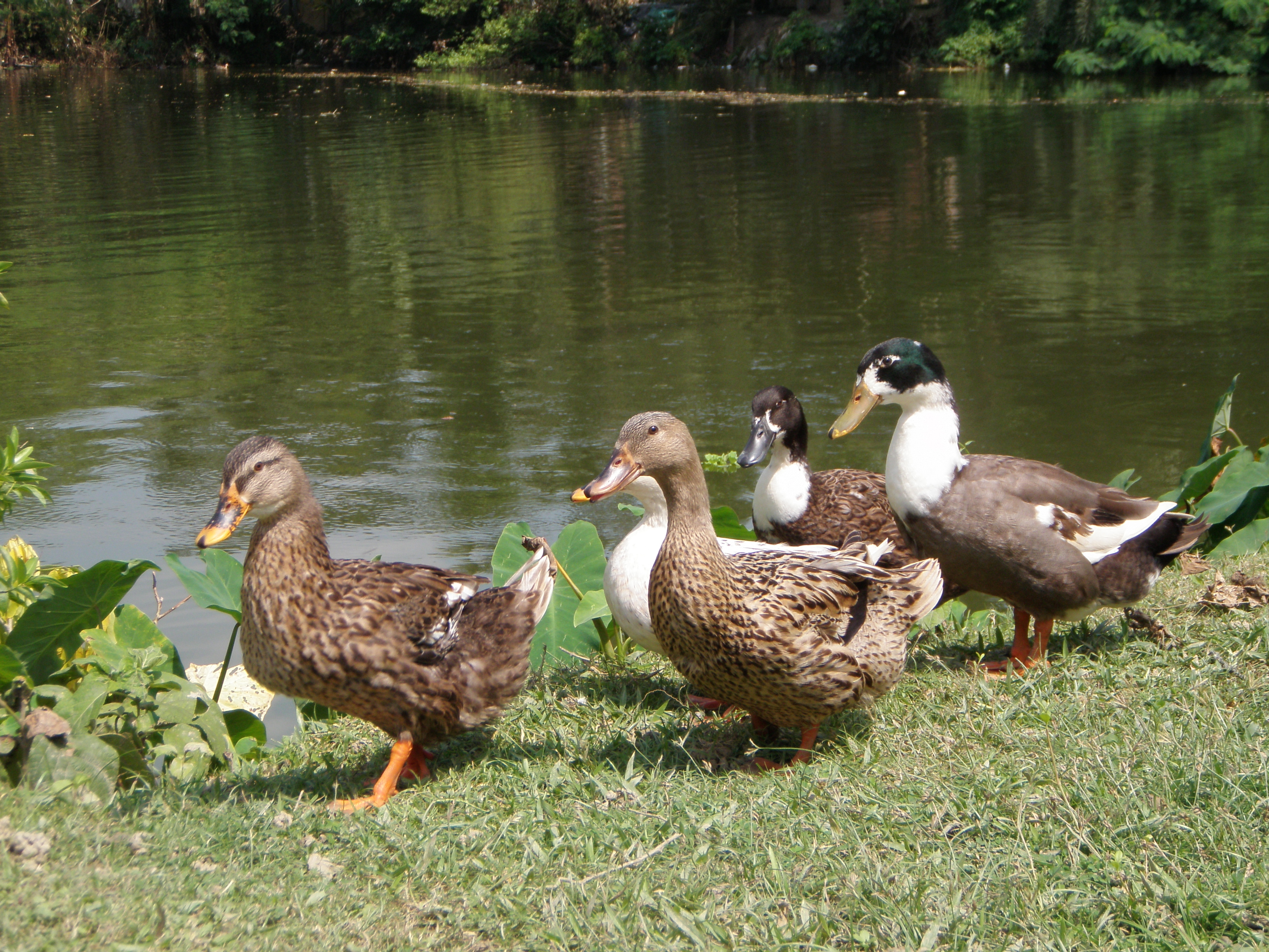 Common domestic ducks.